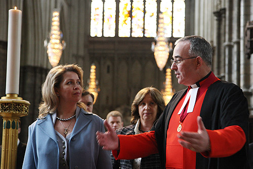 LONDON. Svetlana Medvedeva with the Dean of Westminster John Hall at Westminster Abbey.